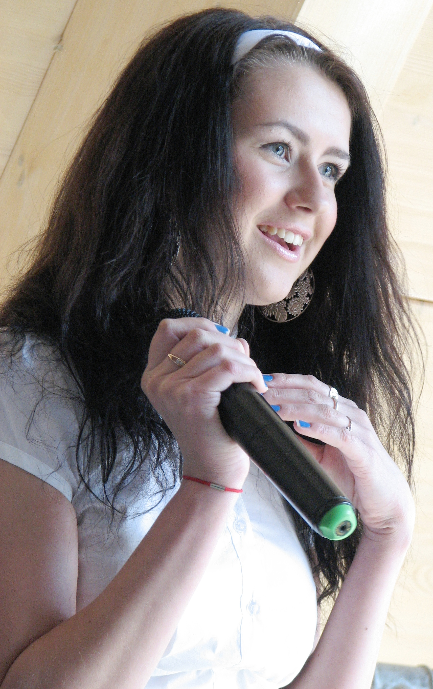 Margit Viirma (born 1992) is Estonian draughts player and singer.